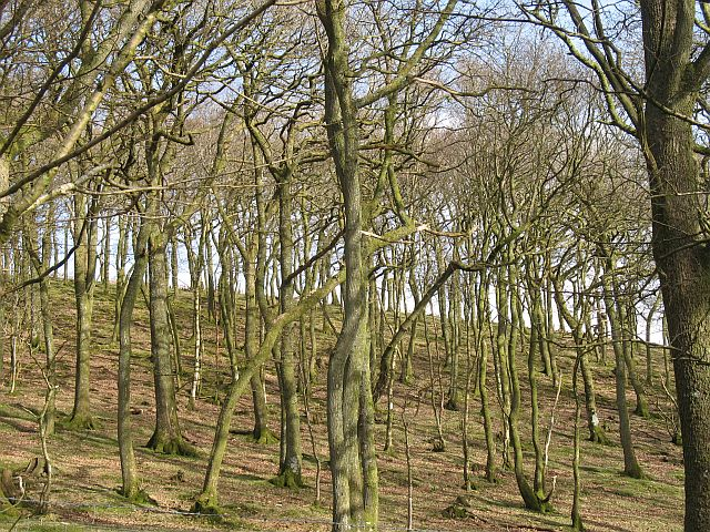 Oakwoods above Dolderwen Another fragment of sessile oak woodland.